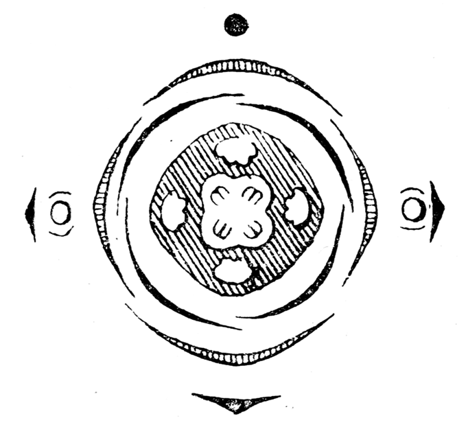 Diagram of a flower of Euonymus europaeus (Celastraceae)